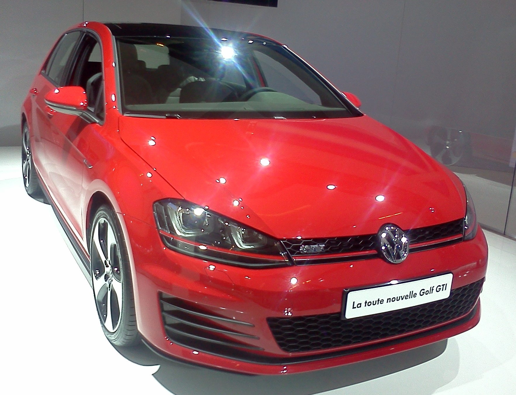 2014 Volkswagen GTI photographed in Montreal, Quebec, Canada at the 2014 Montreal International Auto Show.